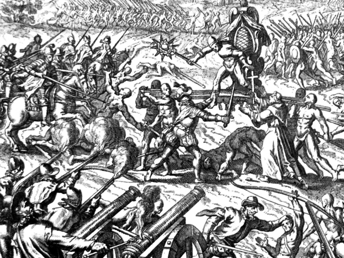 Inca-Spanish confrontation in Cajamarca; there is Emperor Atahuallpa